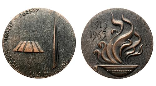 ARMENIA, Soviet Republic. 1936-1991. Æ Medal (59mm, 87.94 g, 12h). Eternal Memory to the Martyrs of the Holocaust. Dually dated 1915 and 1965. View of the Armenian Genocide Memorial in Tsitsernakaberd / Flame in urn; 1915/1965 to upper left. Brown surfaces. EF.